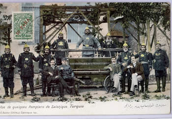 Salonica_Jewish_Fire_Department.